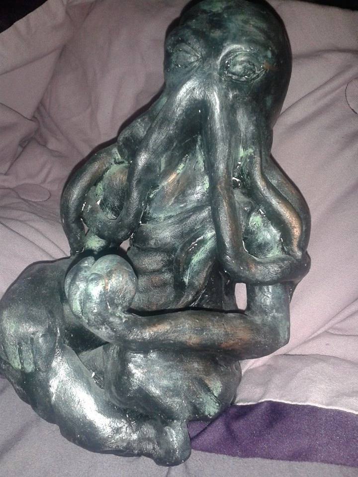 Cthulhu statue found.